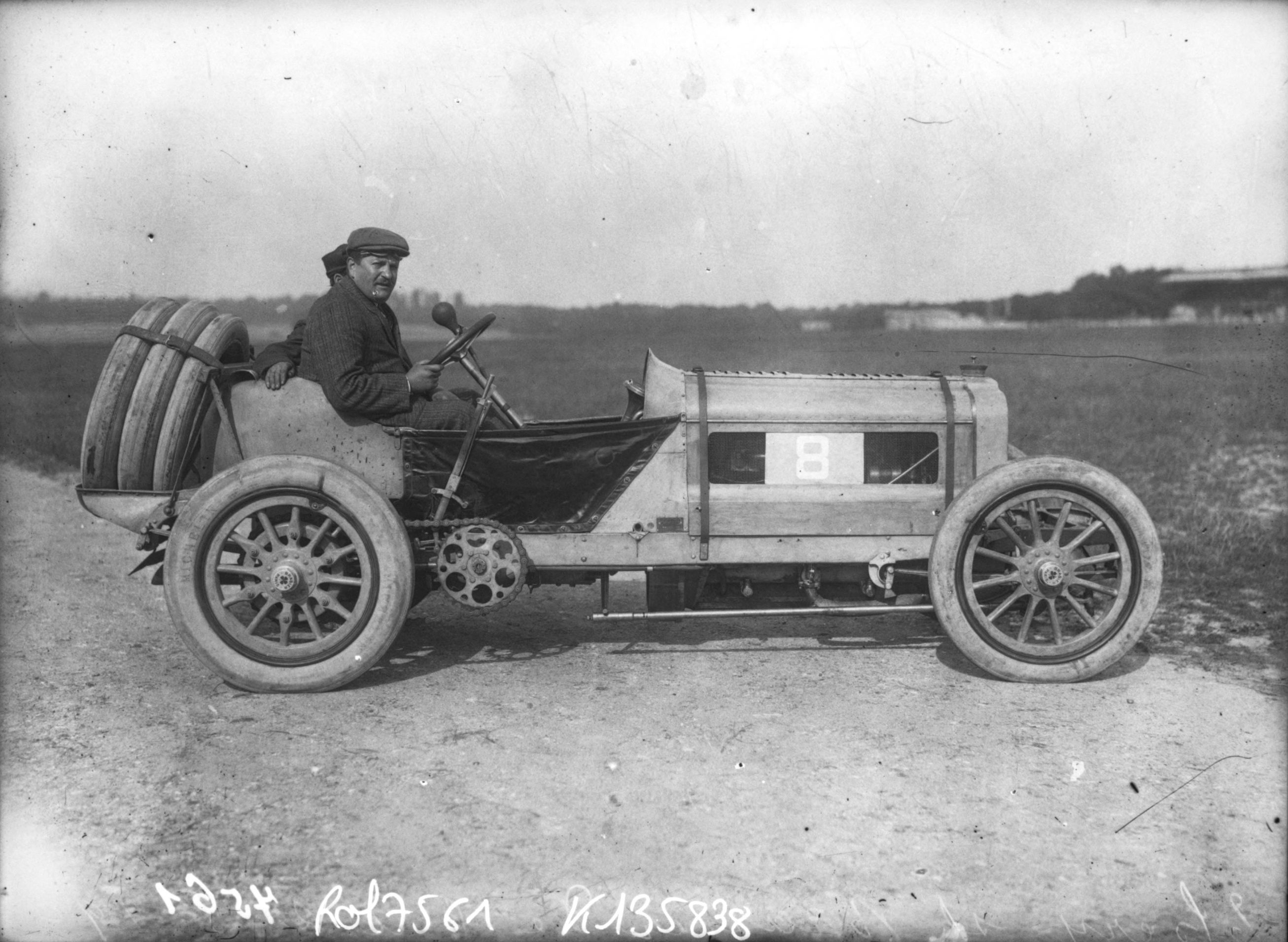 Léon Théry in his Brasier at the 1908 French Grand Prix at Dieppe.